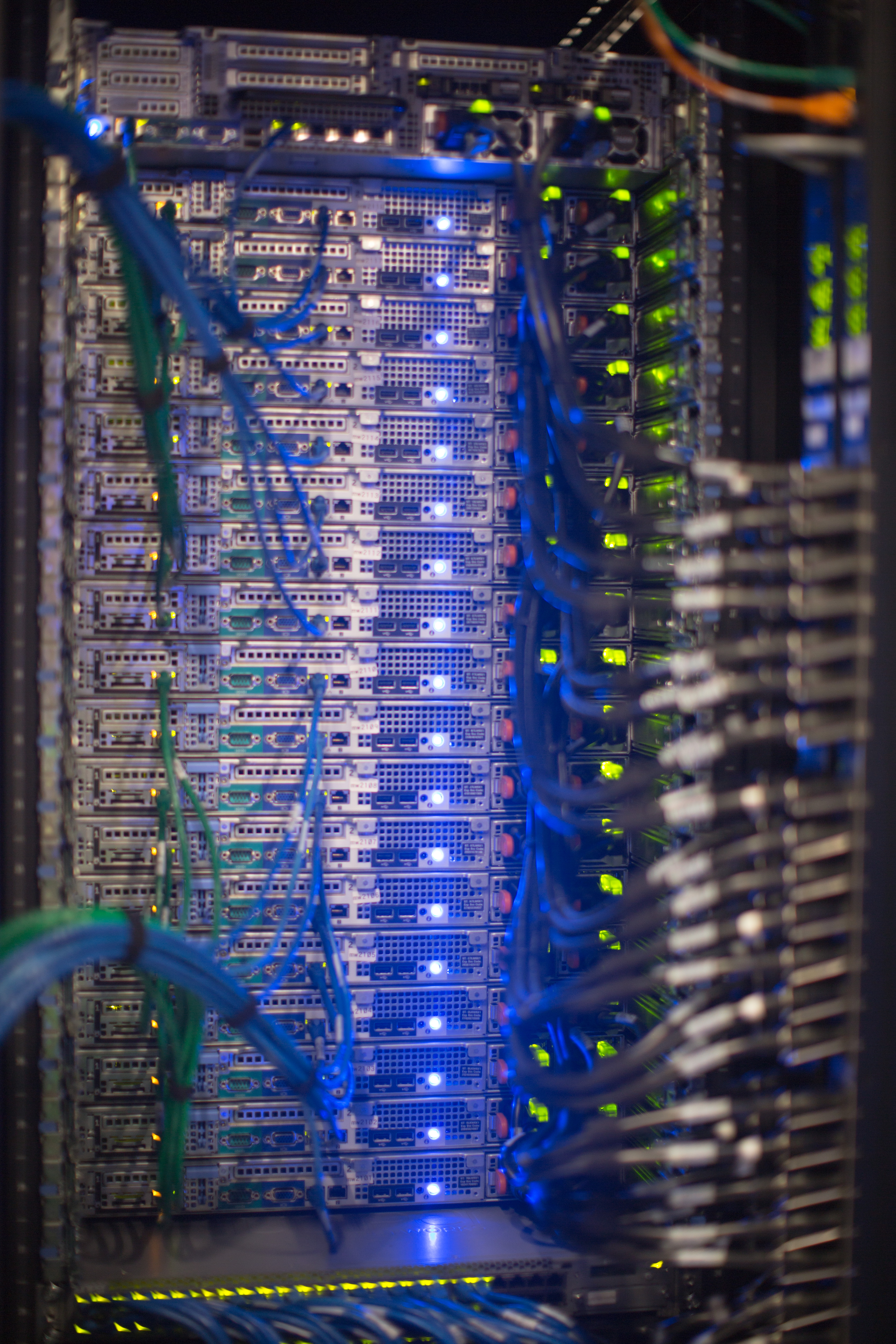 Wikimedia Foundation Servers 2015